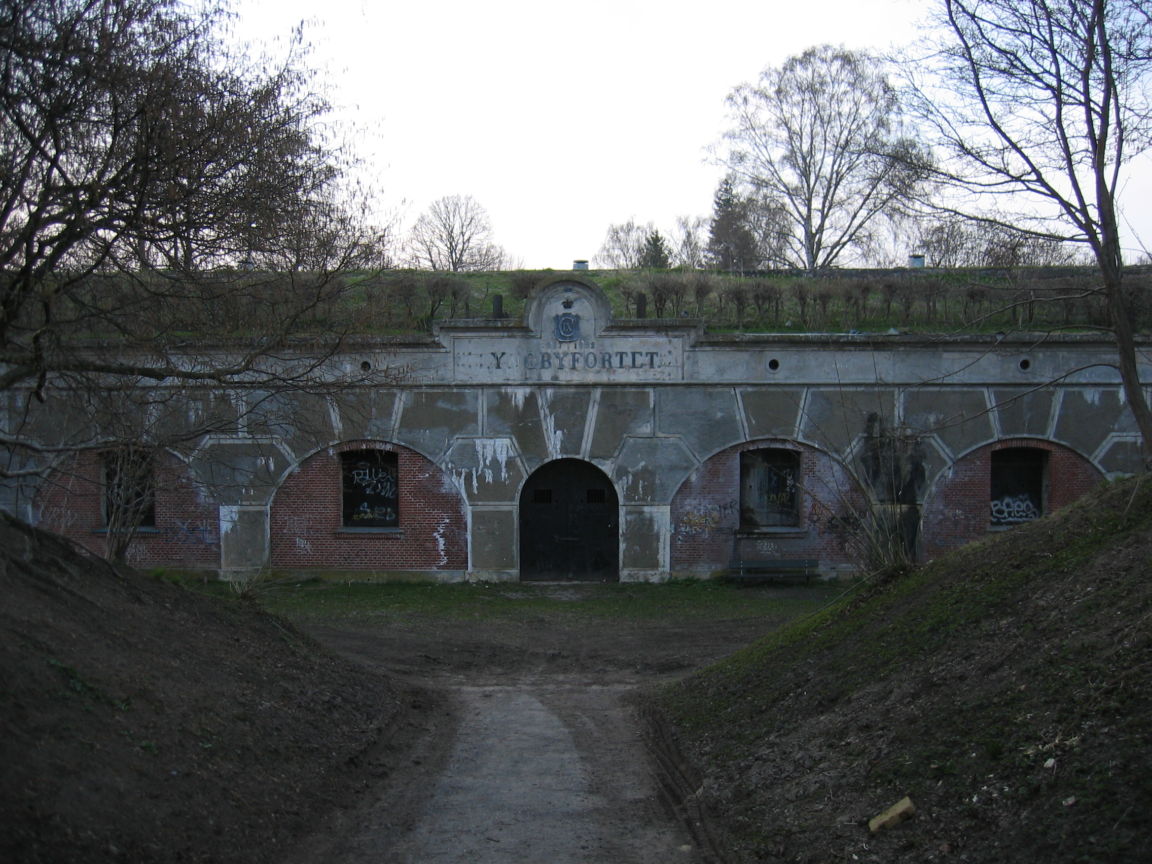 Lyngby Fort, Lyngby, Denmark